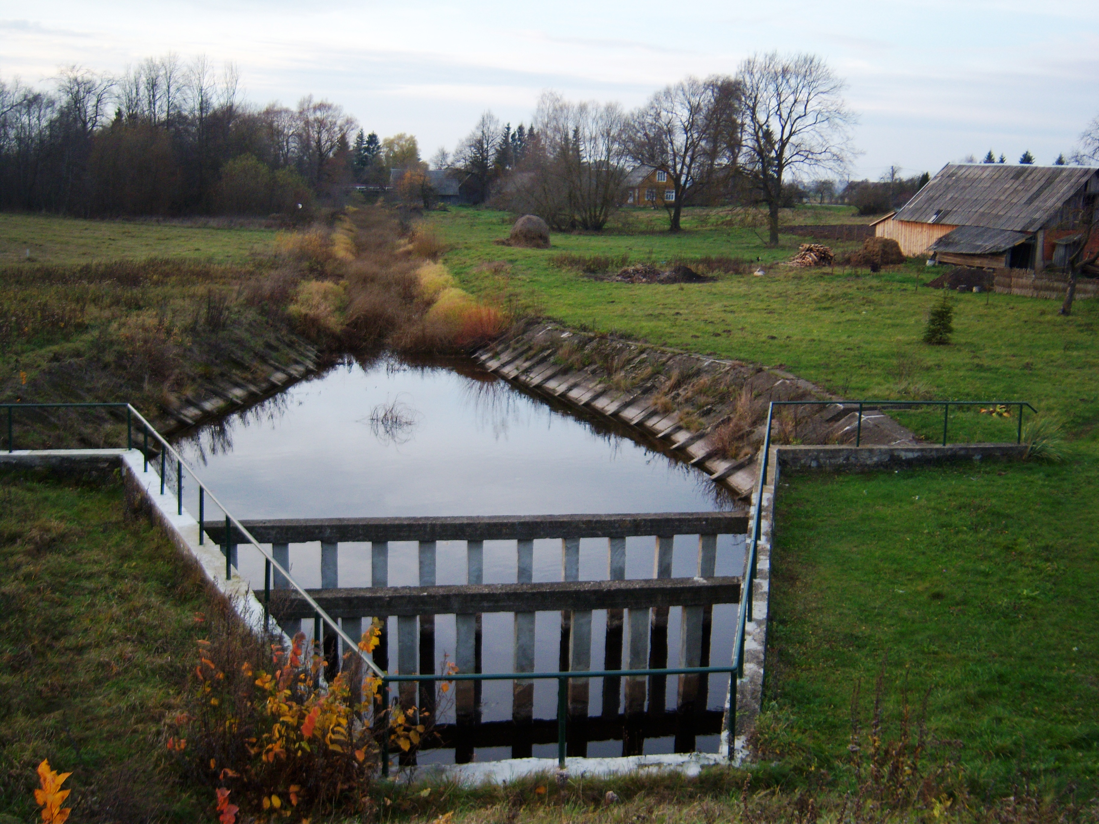 Orija river, Smilgiai, Pasvalys District, Lithuania